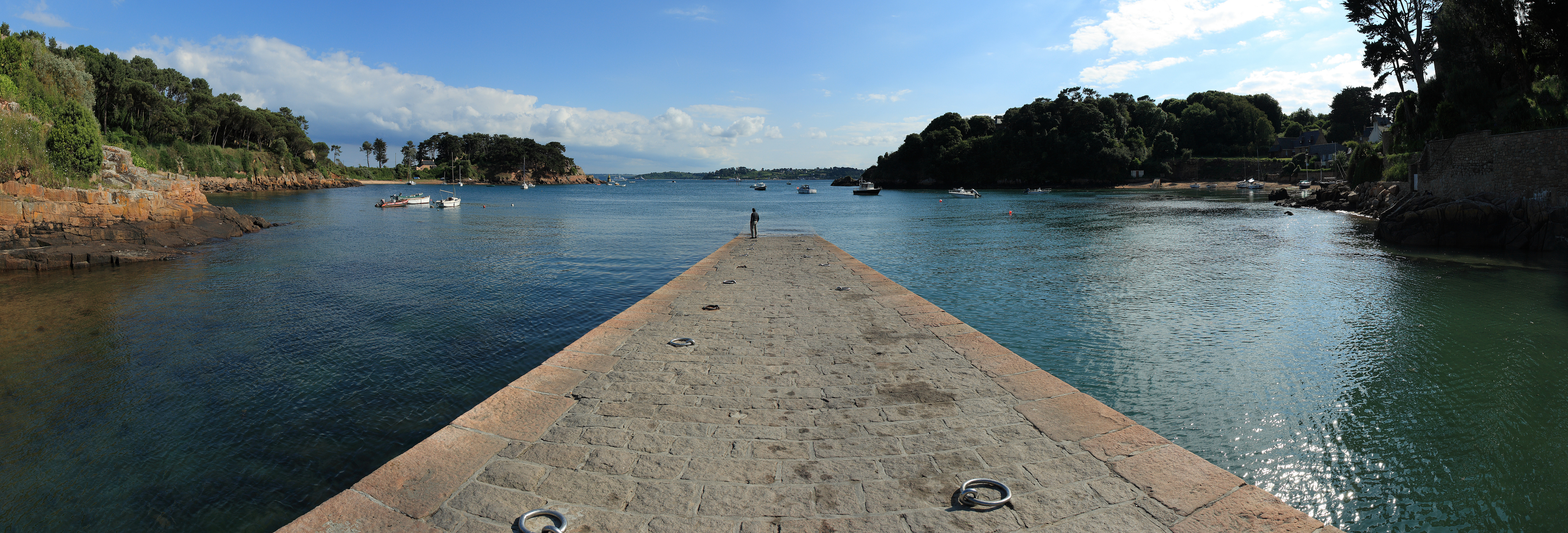 Bréhat island enclosed harbour (port clos) at high tide, Brittany, West France. This picture is a mosaic of 8 pictures (2x4) taken with a 1.6 crop body at 17mm (28mm equiv.), f/8.0, 1/320s and ISO 100. Stitching was done with Hugin and Enblend. Resulting horizontal FOV is about 200°.